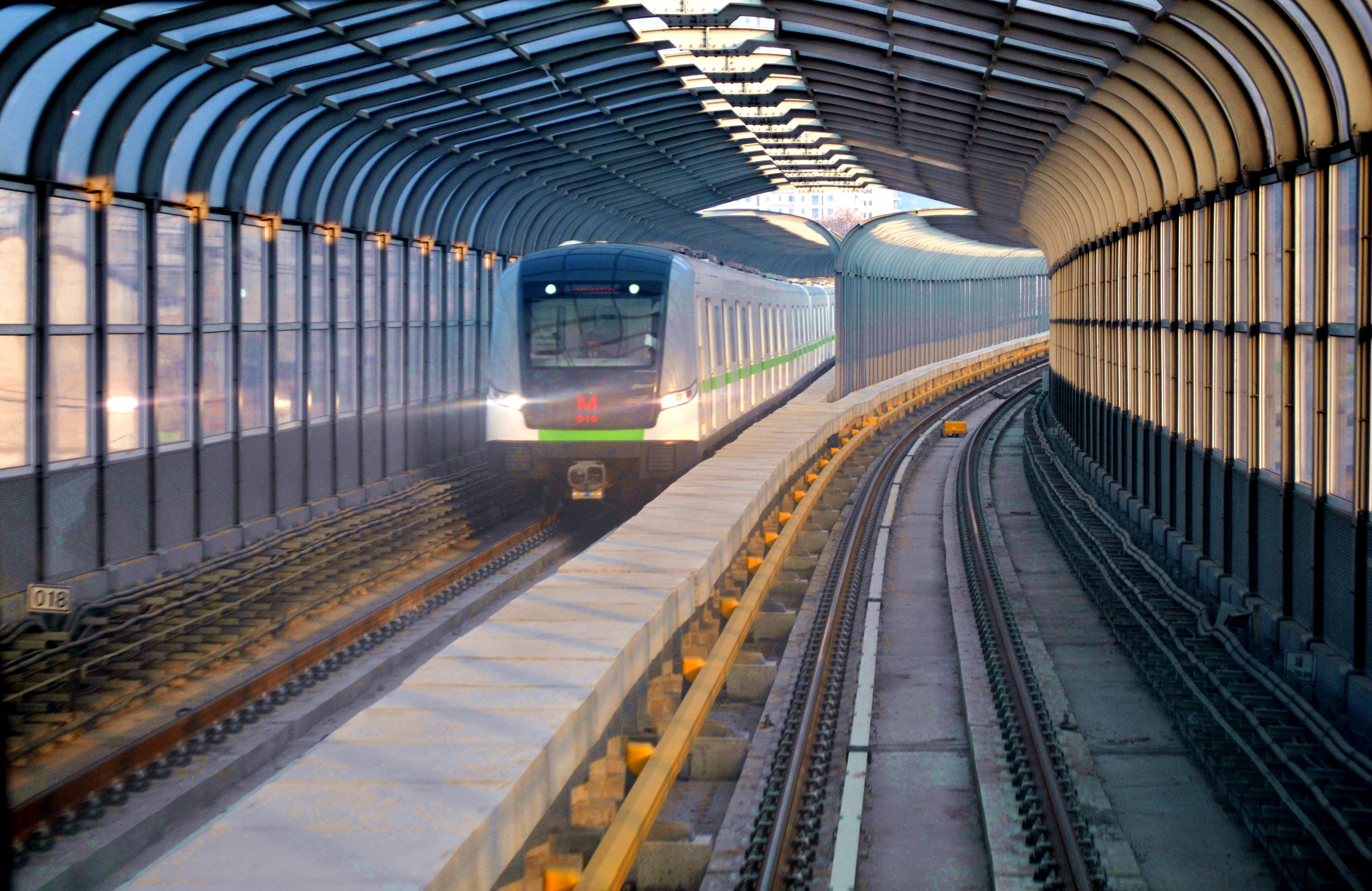 Wuhan Metro Line 4 Train on elevated section